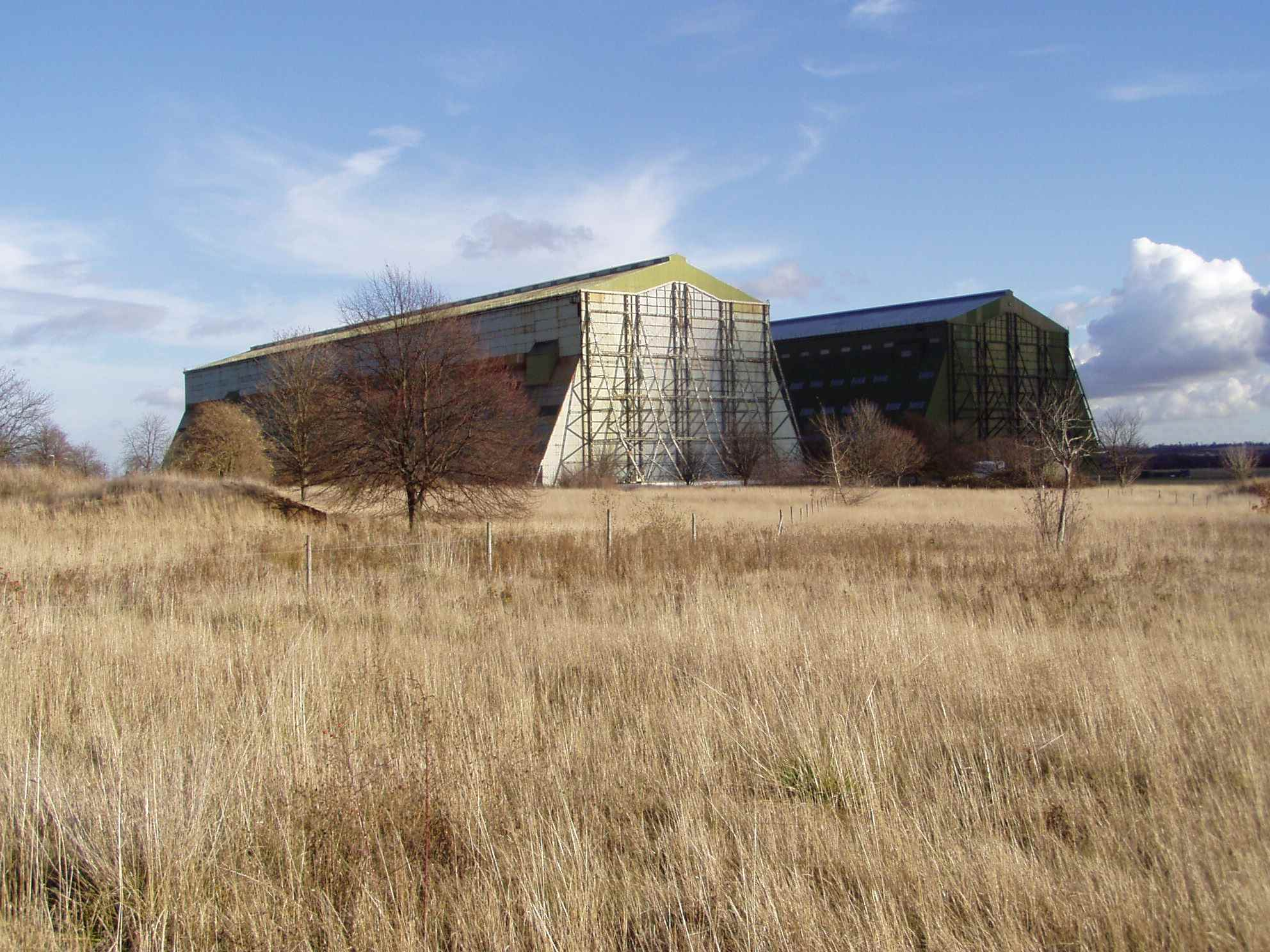 Airship sheds in Cardington near Bedford England